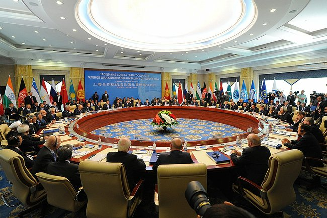 Shanghai Cooperation Organisation summit, 13 September 2013